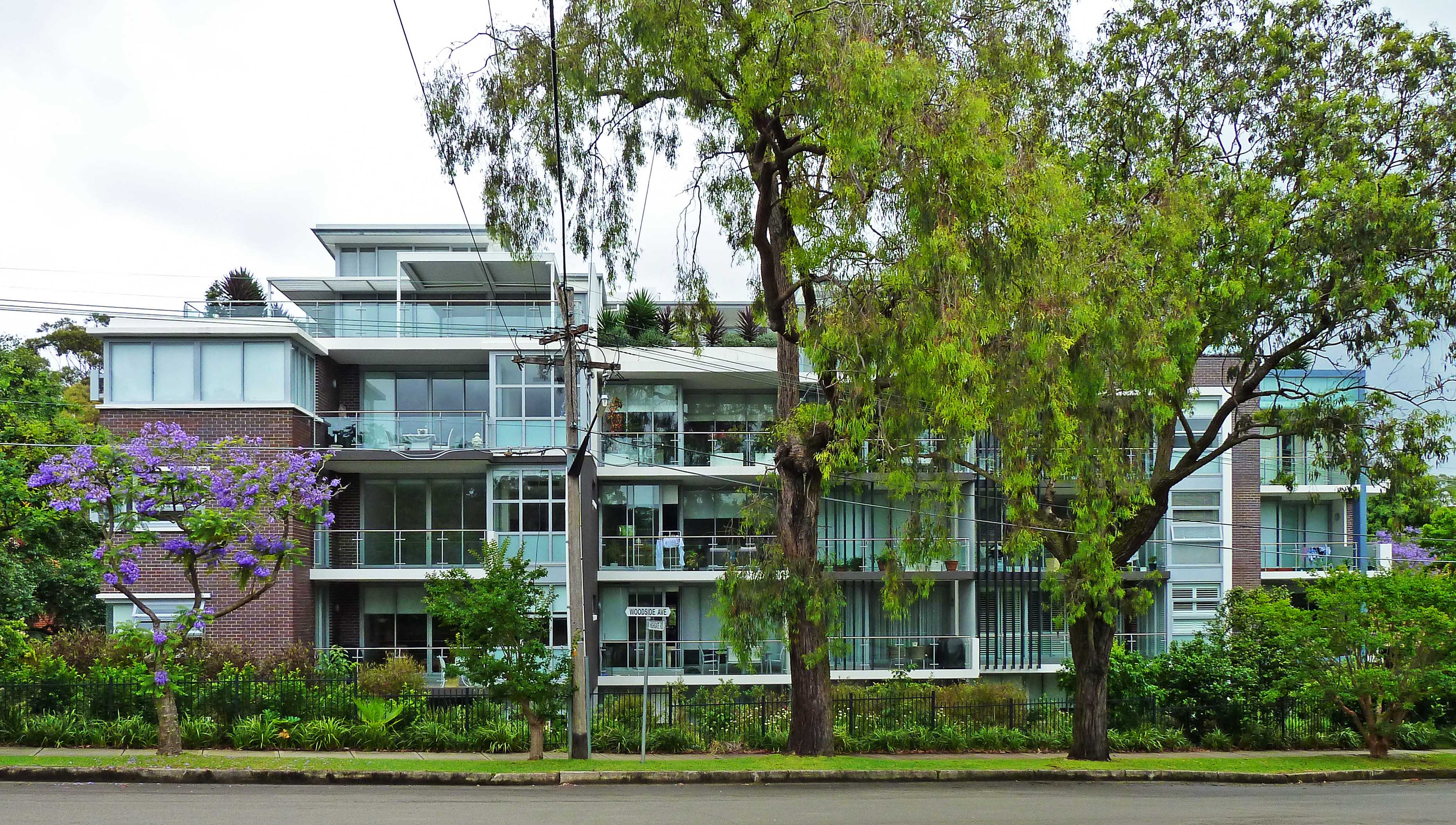 Apartments, 5–9 Woodside Avenue, Lindfield, New South Wales, Australia.